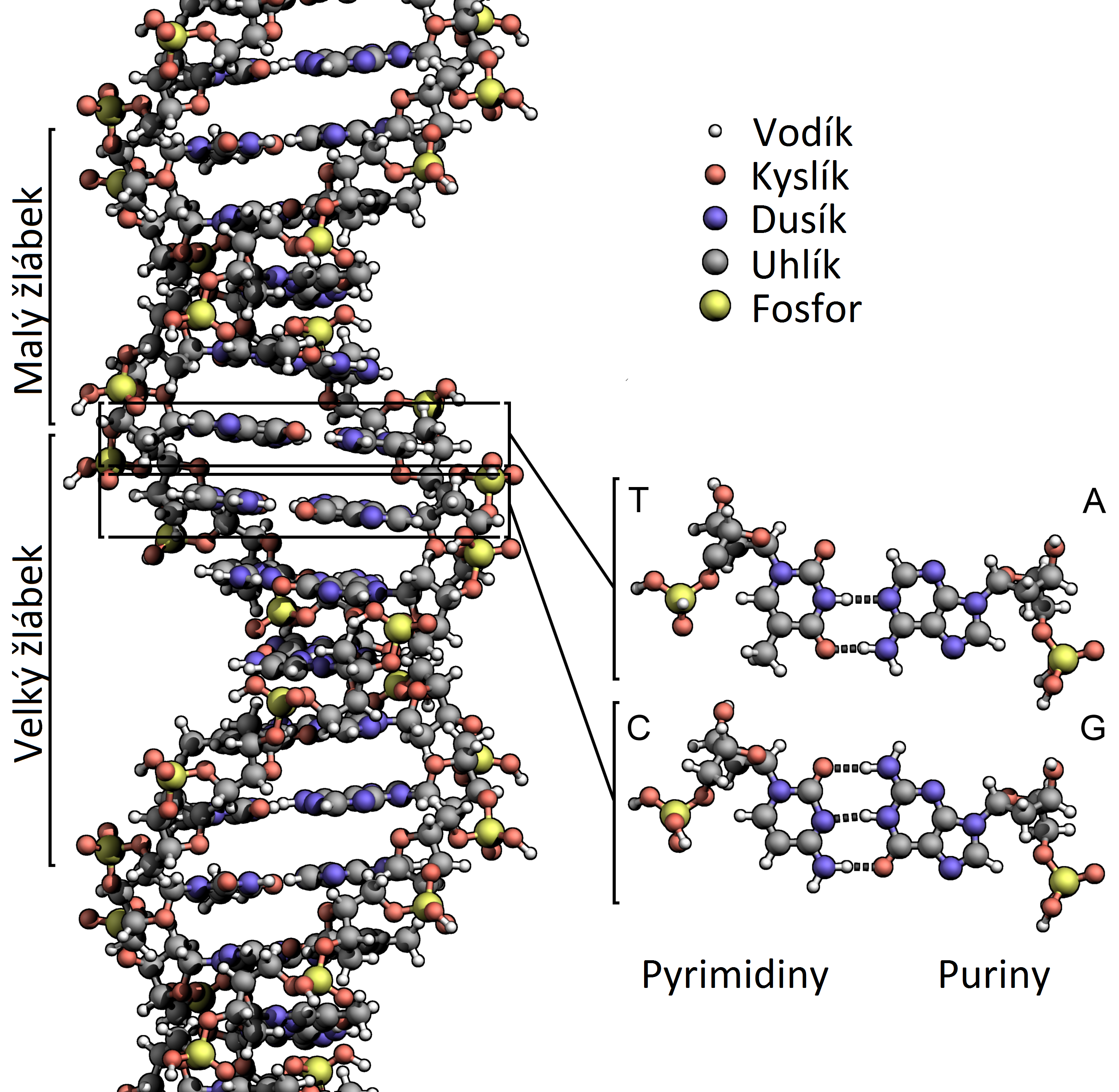 The structure of DNA showing with detail showing the structure of the four bases, adenine, cytosine, guanine and thymine, and the location of the major and minor groove.